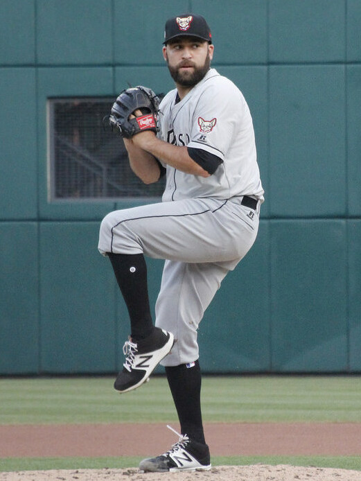 Brett Kennedy pitching in the 2018 Triple-A All-Star Game